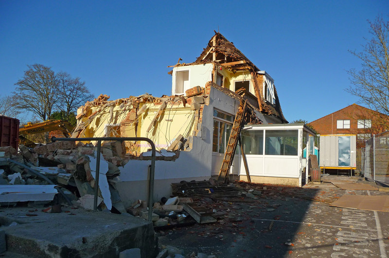 An image showing the demolished former outpatients department